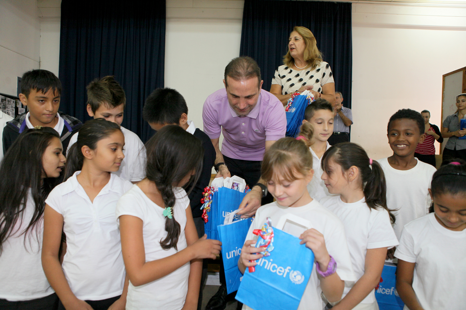 UNICEF Goodwill Ambassador Nasos Ktorides visited Faneromeni Elementary School and offered books with fairy tales to all children